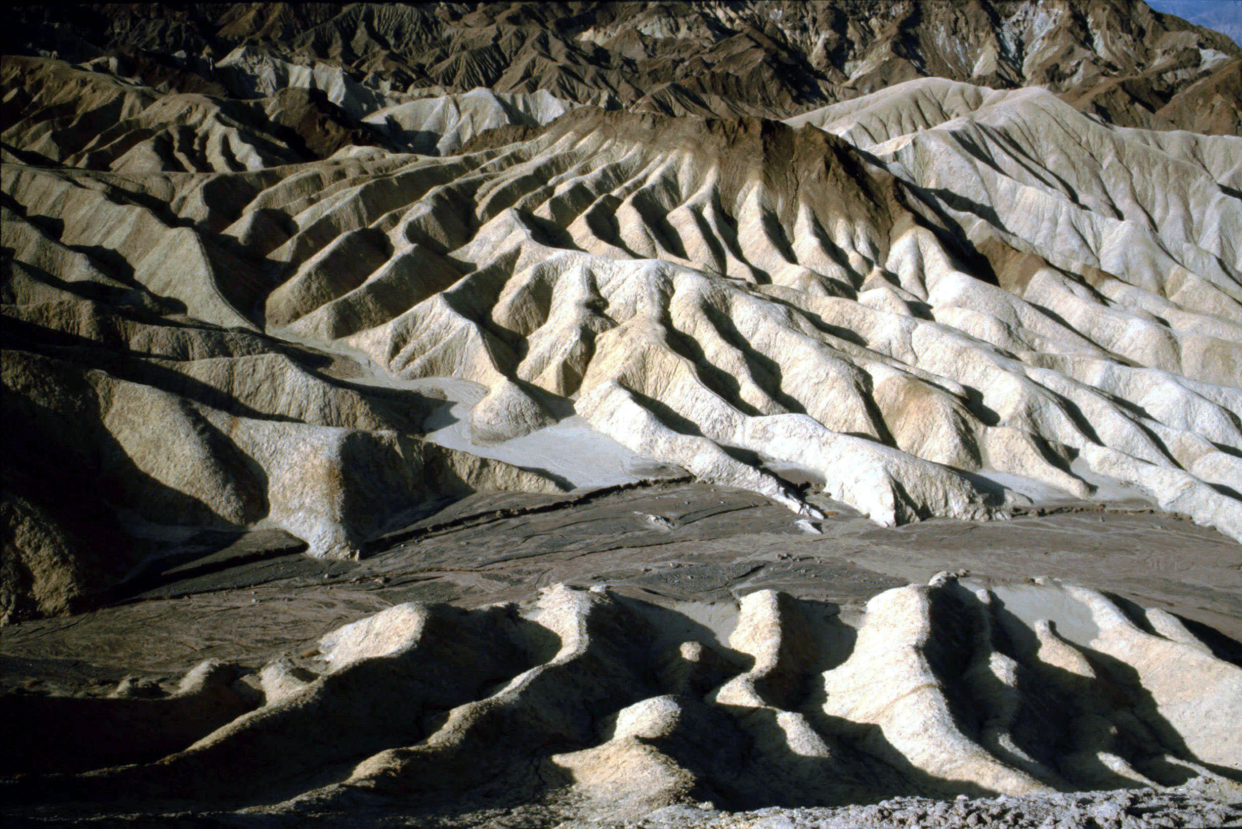 Death Valley,Zabriskie Point,Badlands at rise